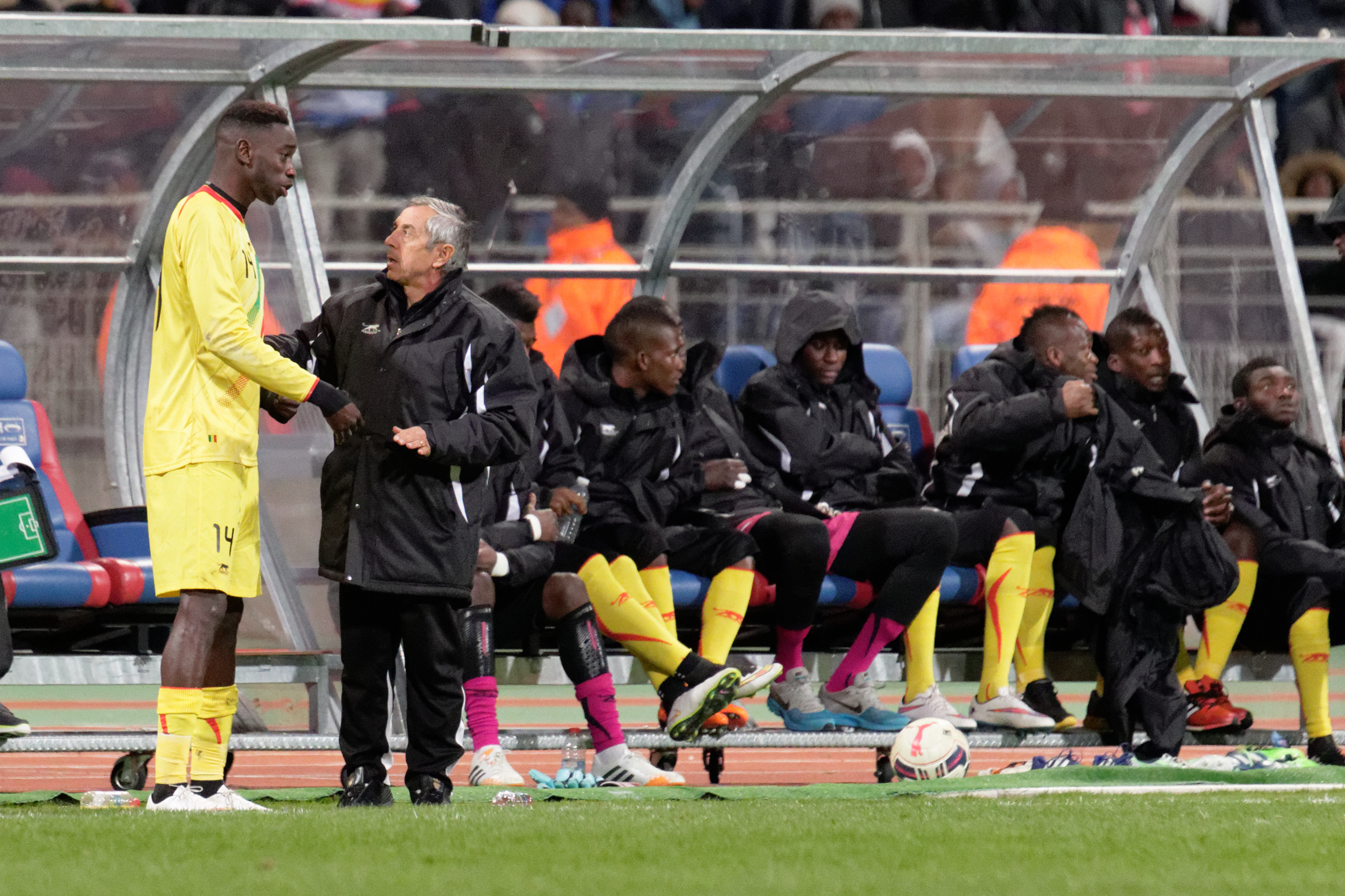 Mali vs Ghana, exhibition game at Paris, 31st March 2015.